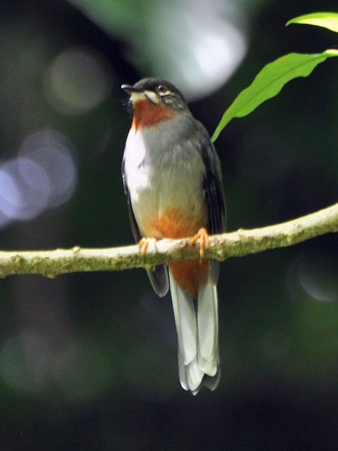 Rufous-throated Solitaire (Myadestes genibarbis dominicanus) 8 November 2011 Dominica, West Indies